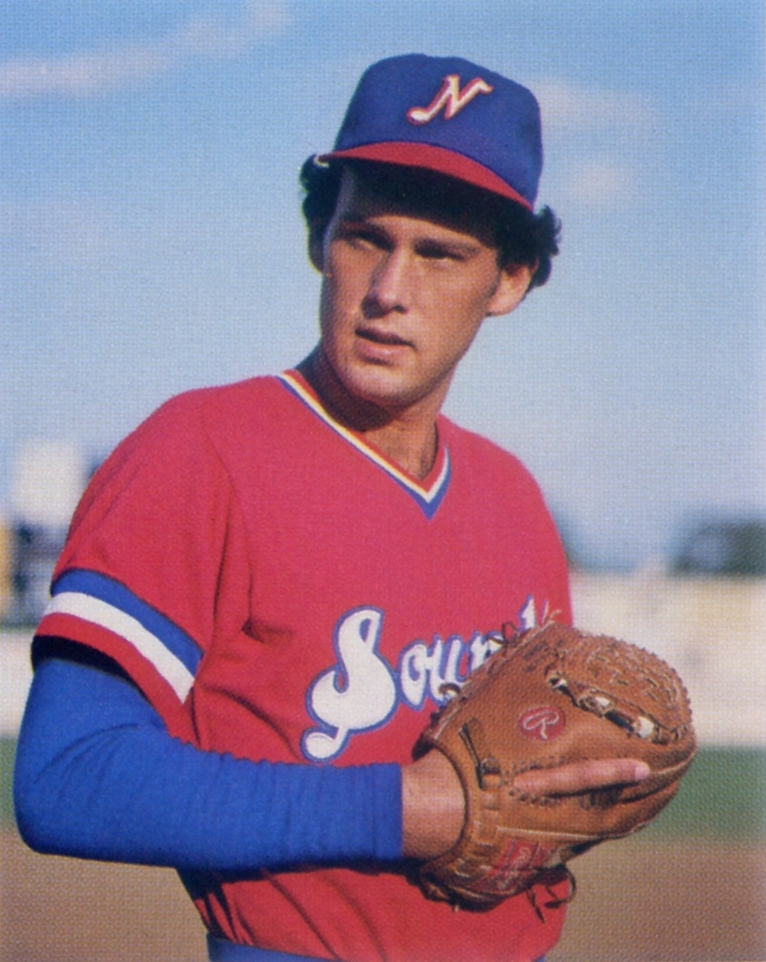 Pitcher Joe Price of the 1979 Nashville Sounds Minor League Baseball team of the Southern League